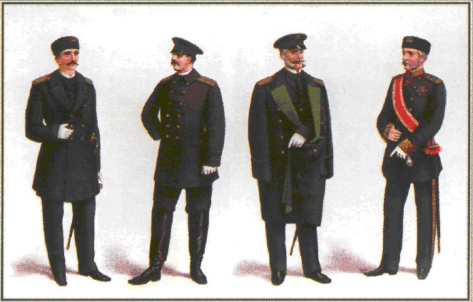 Ministry of State Domains uniform (XIX century Russia)